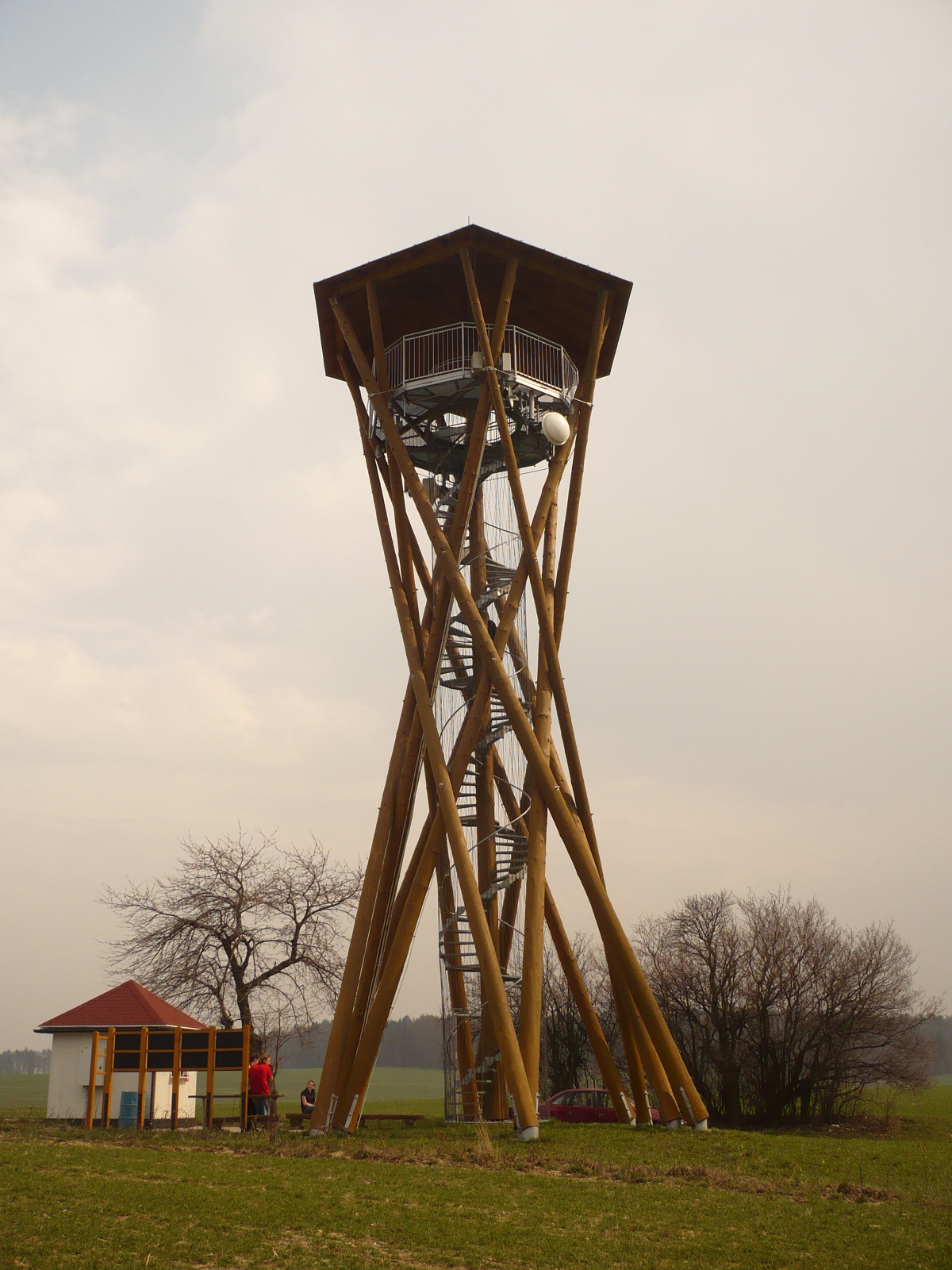 Boruvka Observation tower